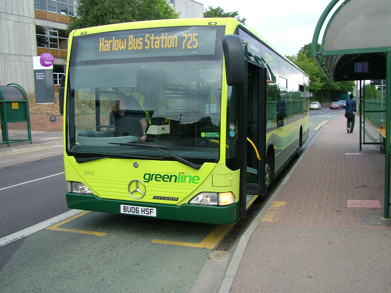 London Road, Ware, Data from Geograph: Description: Arriva East Herts & Essex Mercedes Citaro number 3903 on the infrequent Green Line route 725 from St Albans waiting at Stop C in London Road with the Ware Campus of Hertford Regional College in the background. ICBM: 51.807961148089, -0.031073245257811 Location: (about 0 km from) near to Ware, Hertfordshire, Great Britain.